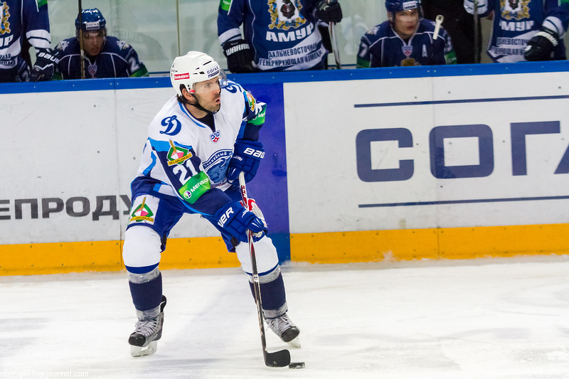 HC Dinamo Minsk defenceman Cory Murphy during KHL game against Amur Khabarovsk on September 26, 2012.